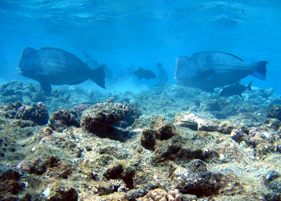 A pair of Humphead Parrotfish (Bolbometopon muricatum). North Horn, Osprey Reef, Coral Sea